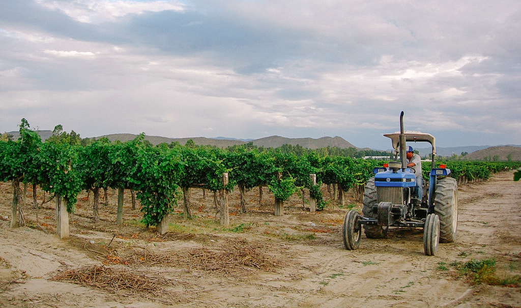 Vineyards of the Casa Madero, established in 1597 in Parras de la Fuente, Coahuila, Mexico